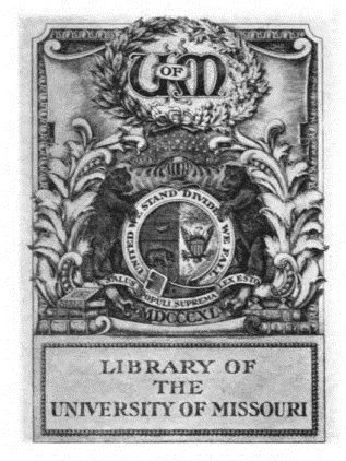 "The University of Missouri bookplate was engraved by Joseph Winfred Spenceley in 1899."